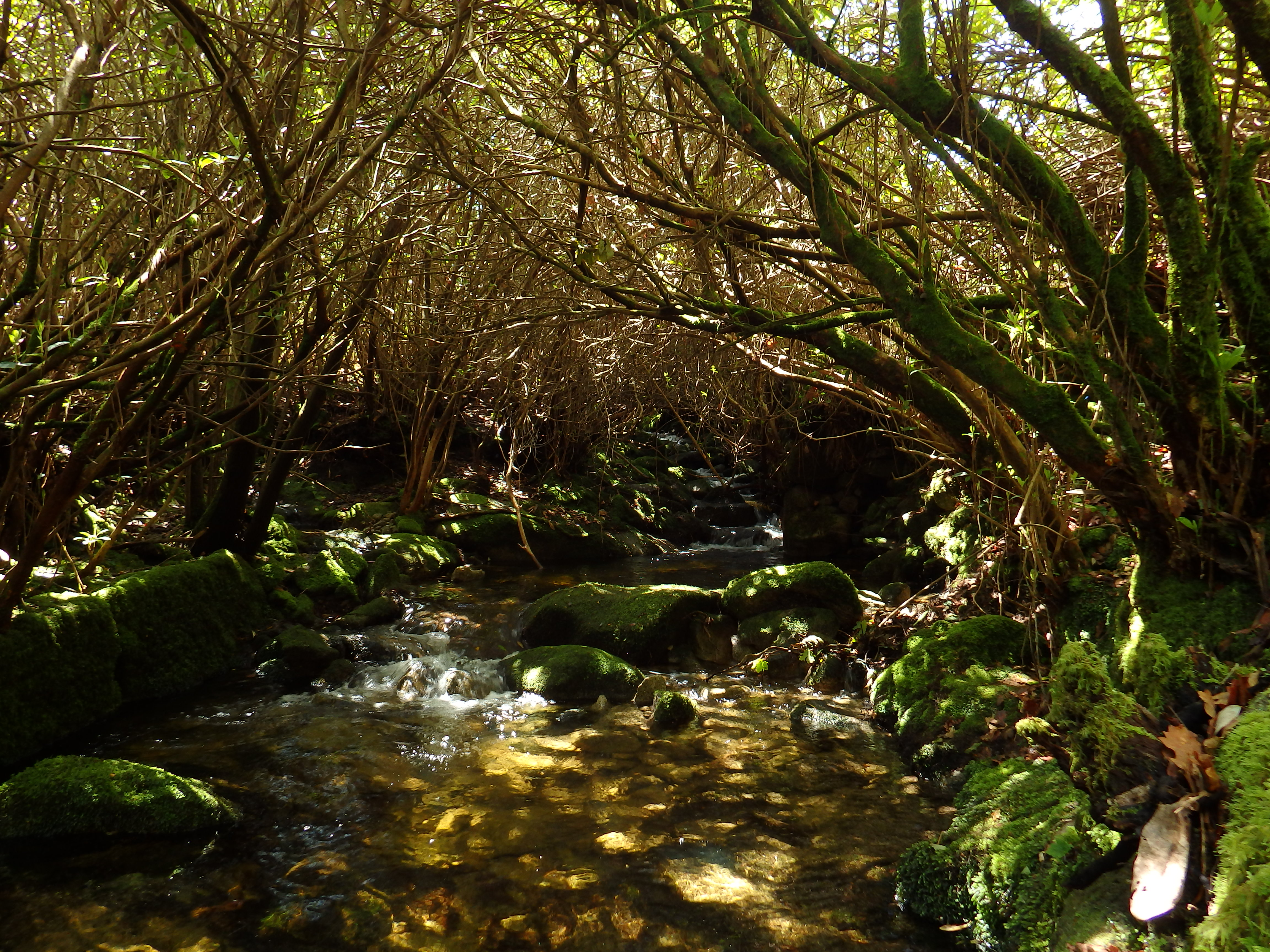 Creek in Cambarinho Botanical Reserve. This is a photography of a Site of Community Importance in Portugal with the ID: PTCON0016. Natura2000 entry, EEA entry